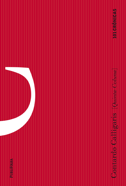 A photo with the cover of the most famous book of the author